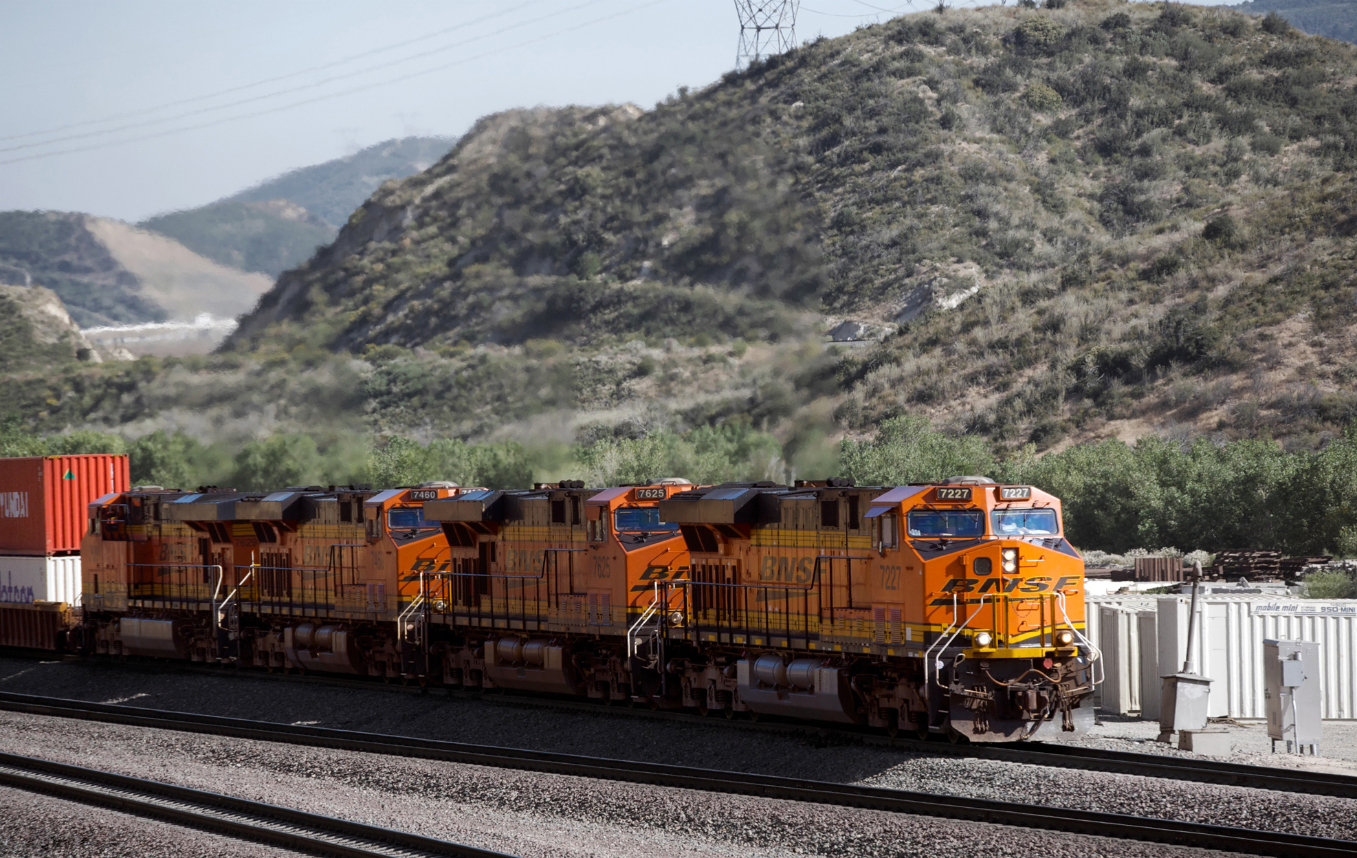 Making its way out of the Los Angeles basin, a BNSF (Burlington Northern Santa Fe) intermodal begins the arduous task of climbing the Cajon Pass on its way to Barstow and beyond.